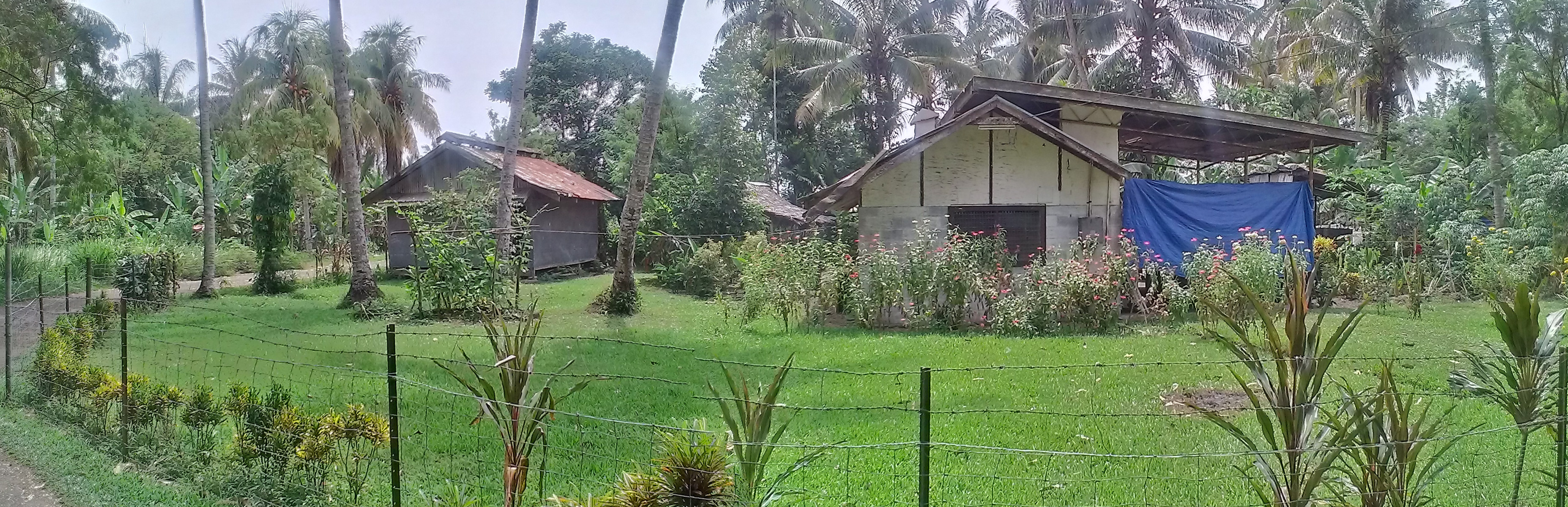 Photo of the old library at Malahang Mission Station, Lae, Morobe Province. Photo taken 30 January 2014